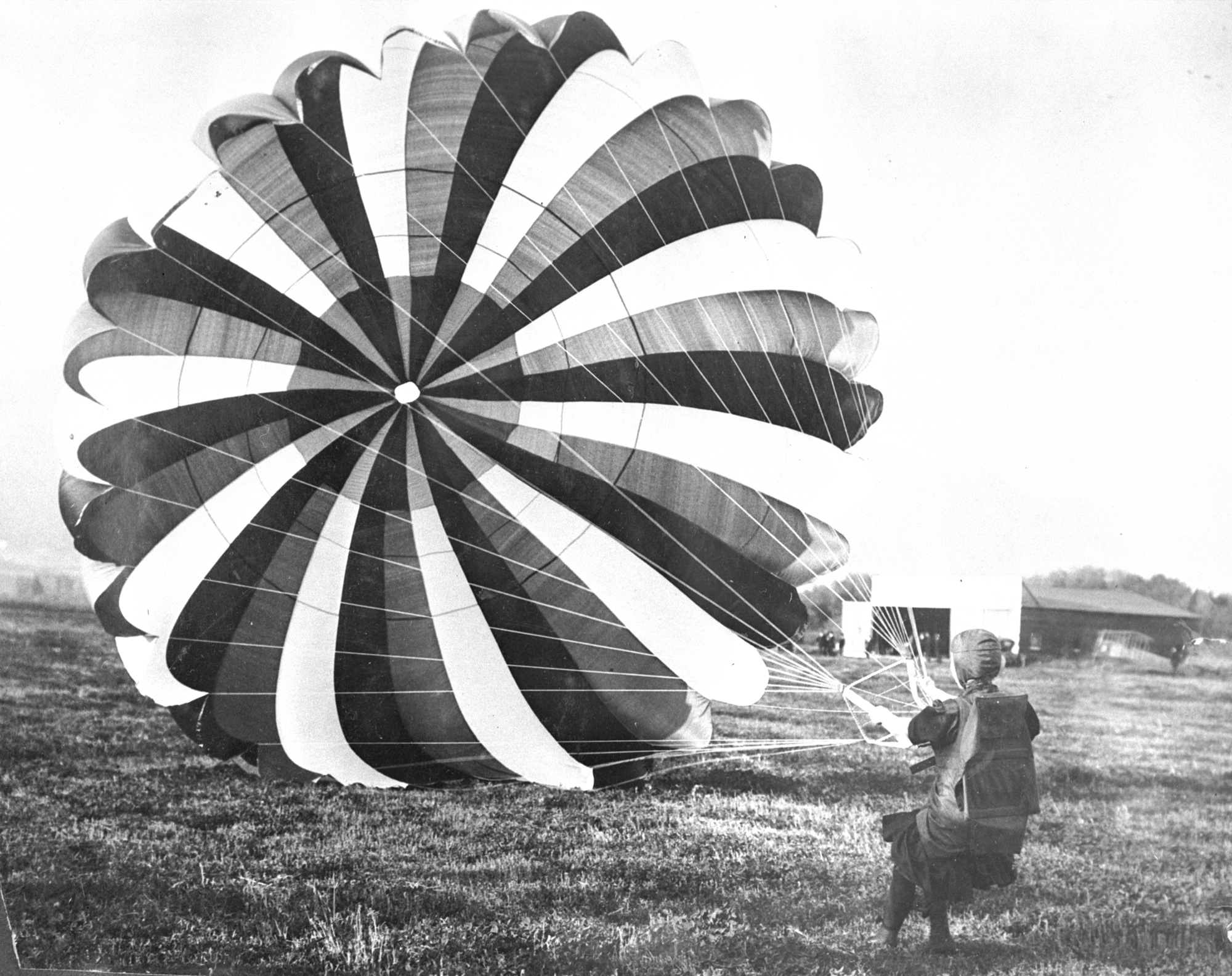 Tiny Broadwick with open chute, c.1913-1922. From the General Negative Collection, North Carolina State Archives.